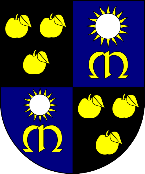 Coat of arms (shield only) of Josef Hlouch, bishop of České Budějovice, Czech Republic (1947 - 1972).